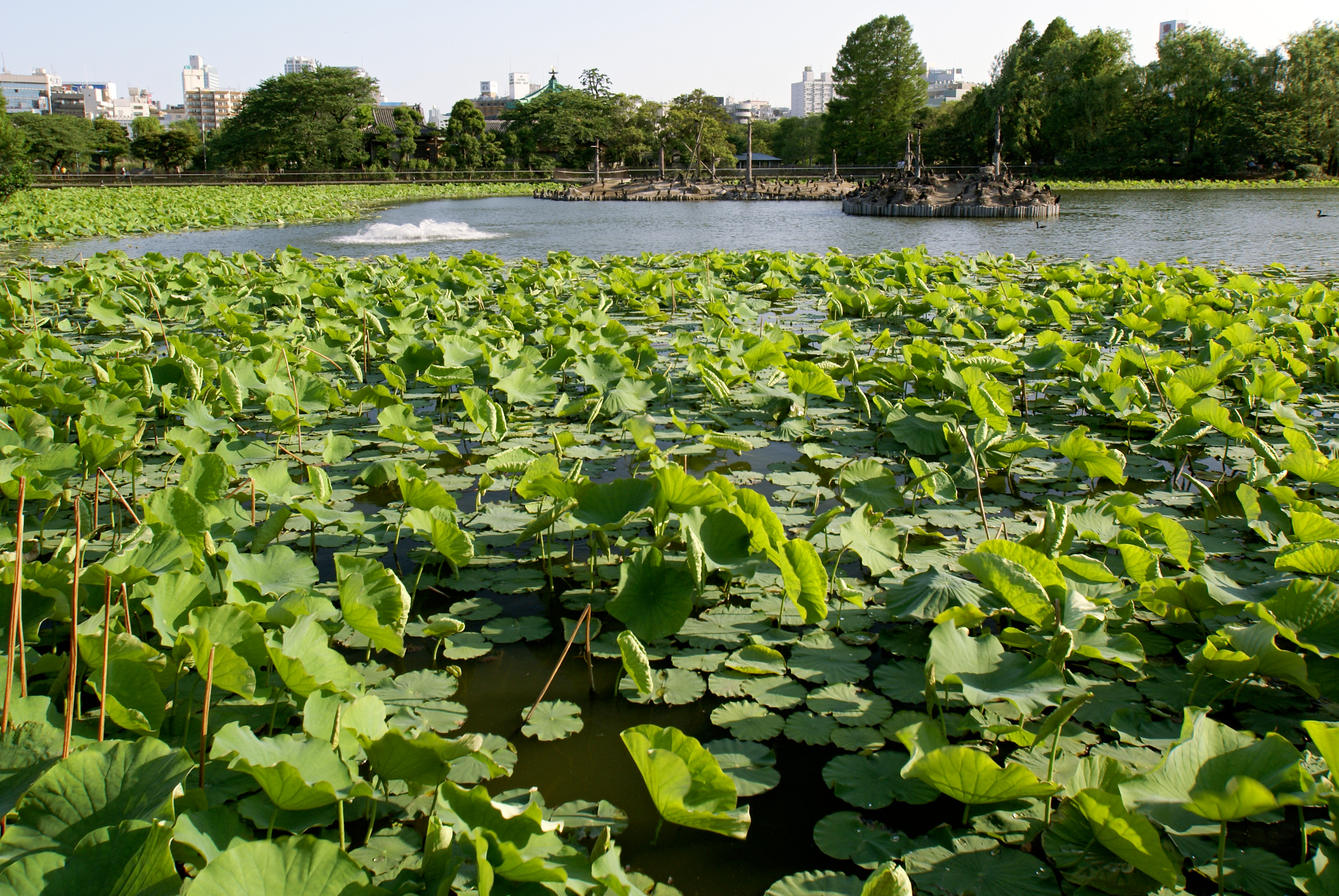 Shinobazu Pond in Taito-ku, Tokyo, Japan